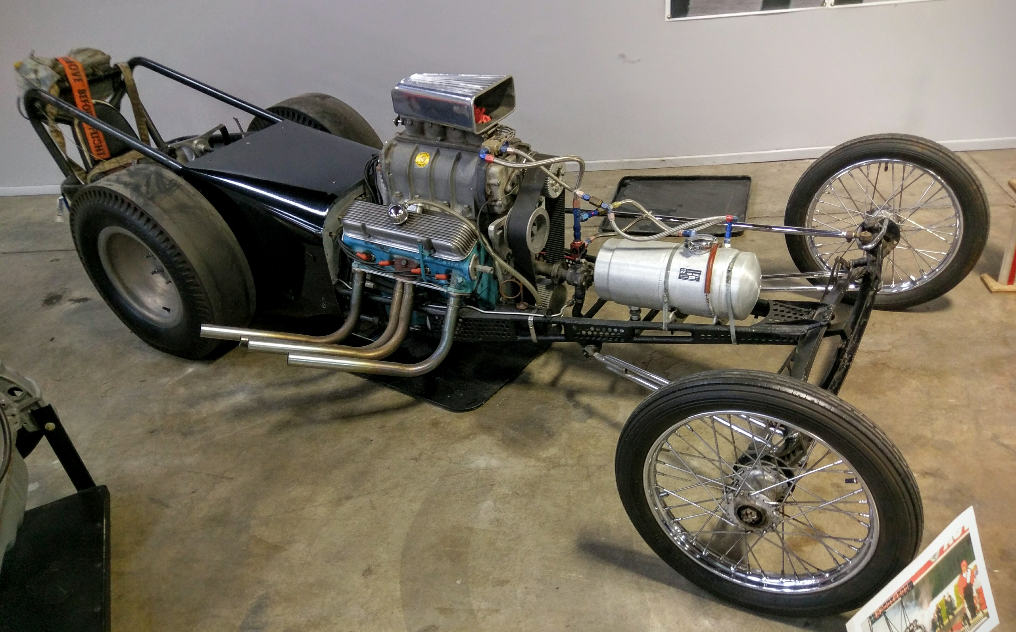 A 1958 Fuel Dragster on display at the California Autombile Museum. Photo by Jim Heaphy.